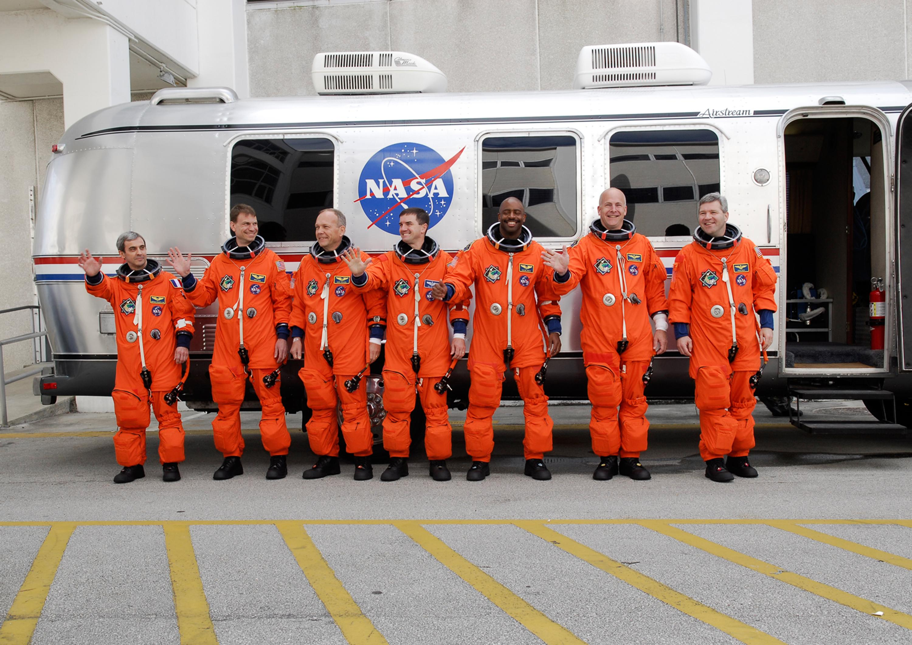 The STS-122 crew pauses alongside the Astrovan to wave farewell to onlookers before heading for Launch Pad 39A for the launch of space shuttle Atlantis on the STS-122 mission on February 7, 2008.